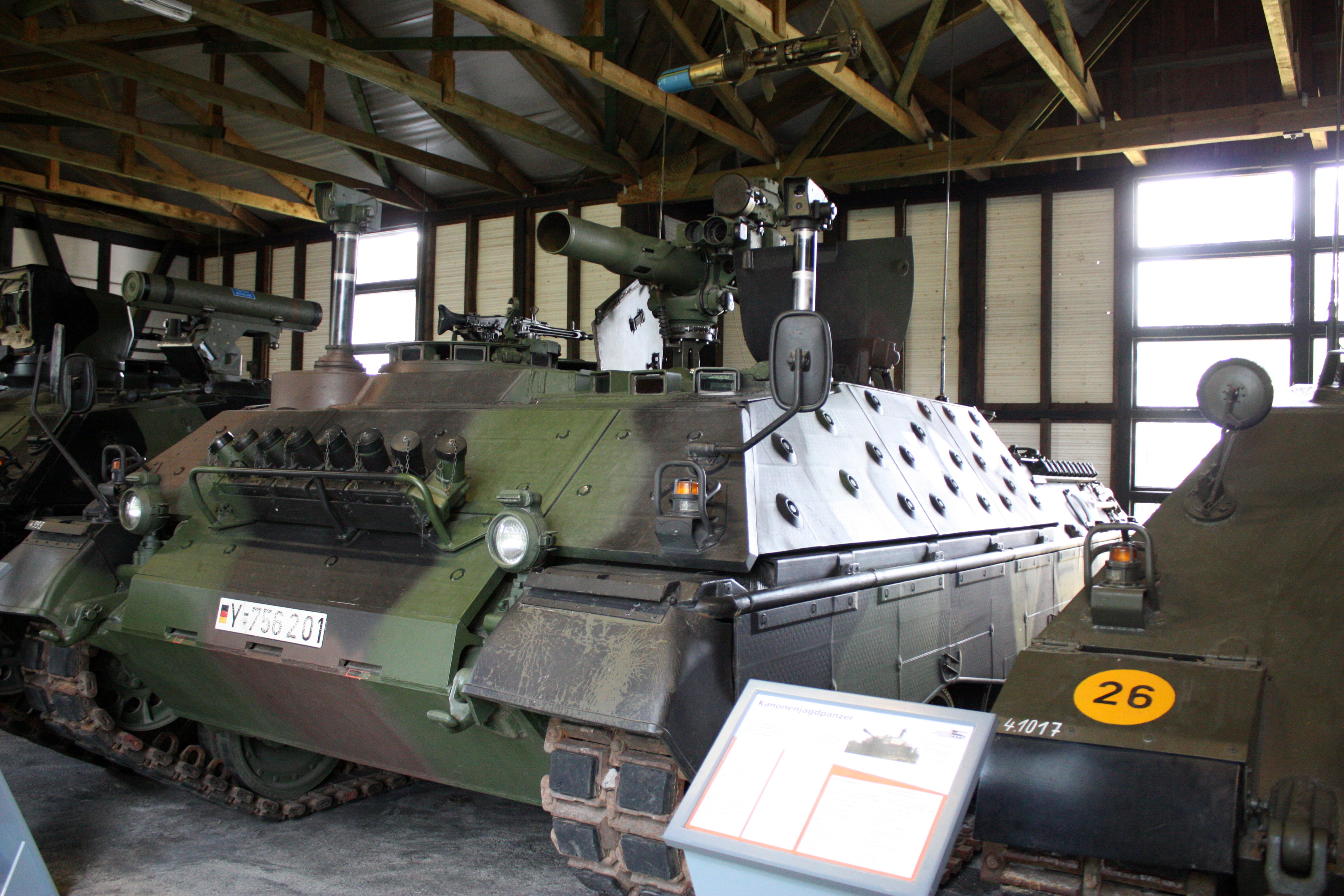 German Tank Museum